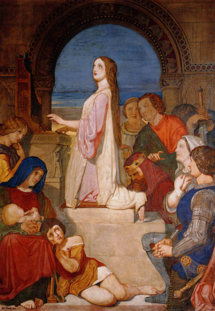 Poster of fresco after John Dryden's poem "A Song for Saint Cecilia's Day"